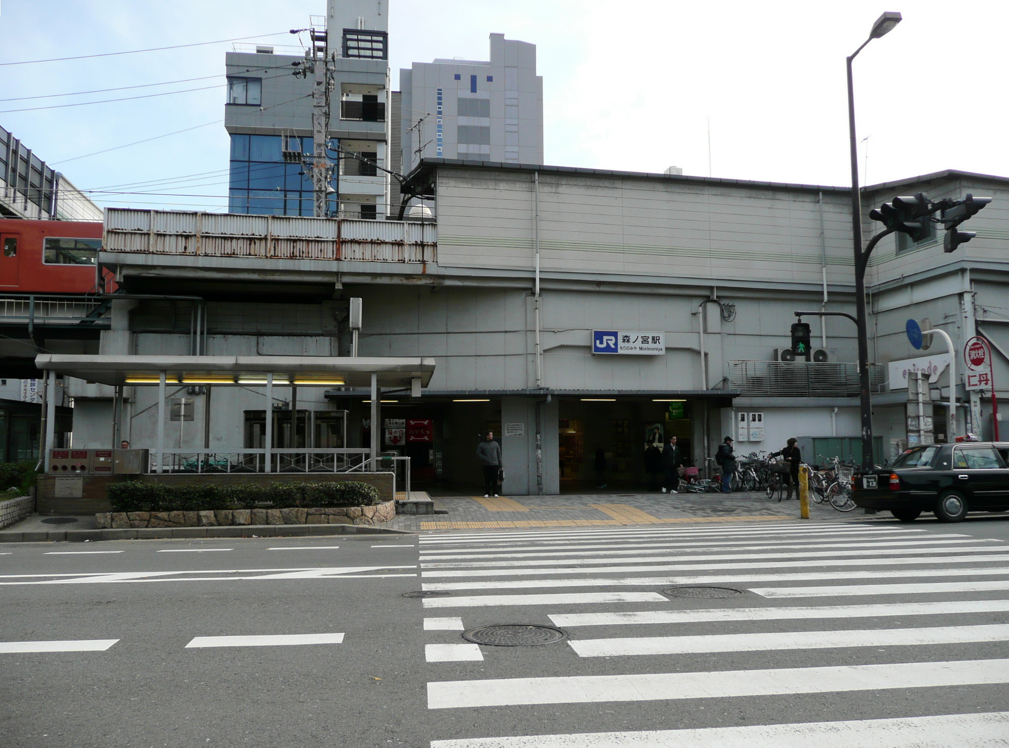 West Japan Railway,Osaka roop Line,Morinomiya Station west entrance. / 大阪環状線森ノ宮駅西口